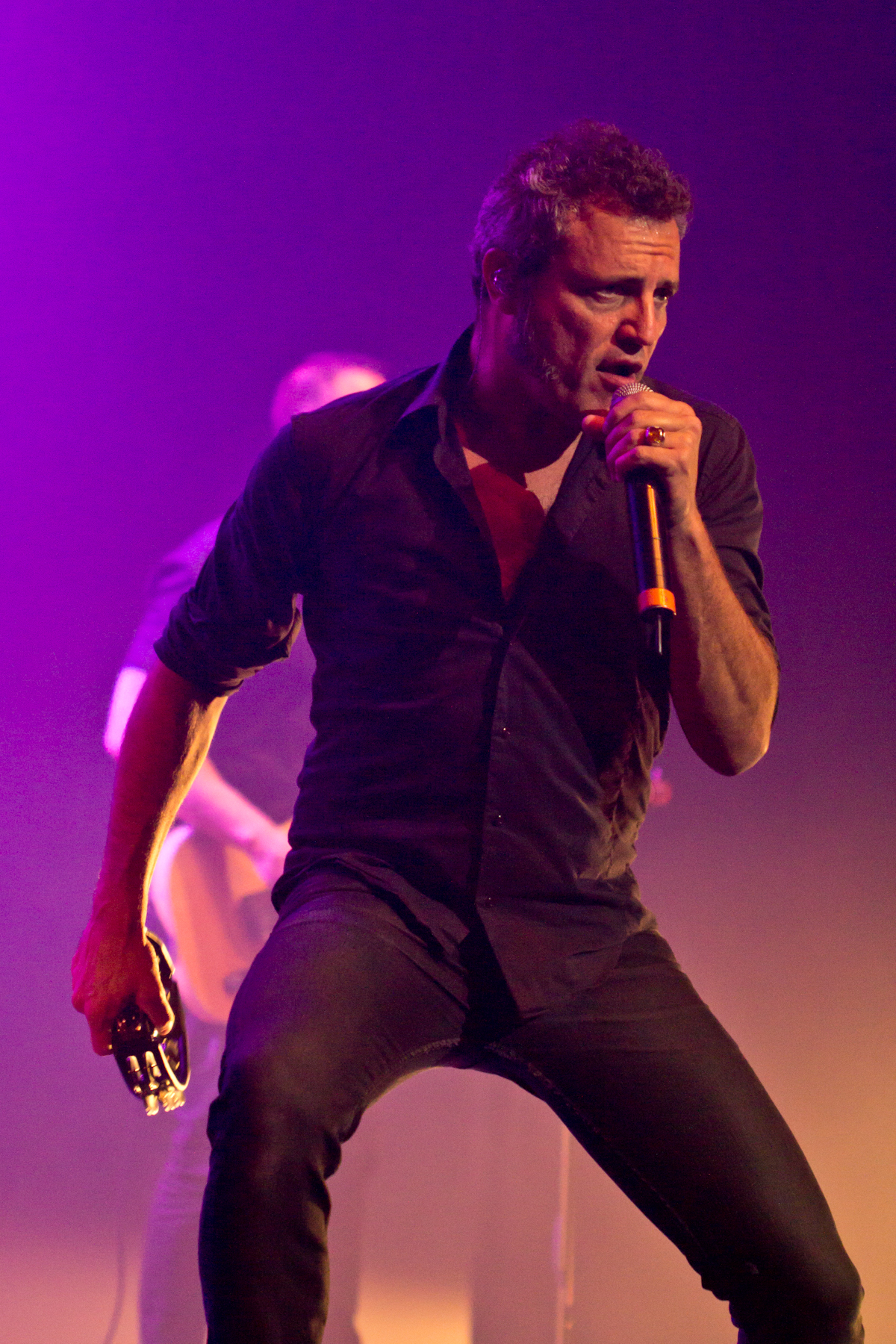 Spanish rock band M Clan live in May 2013.